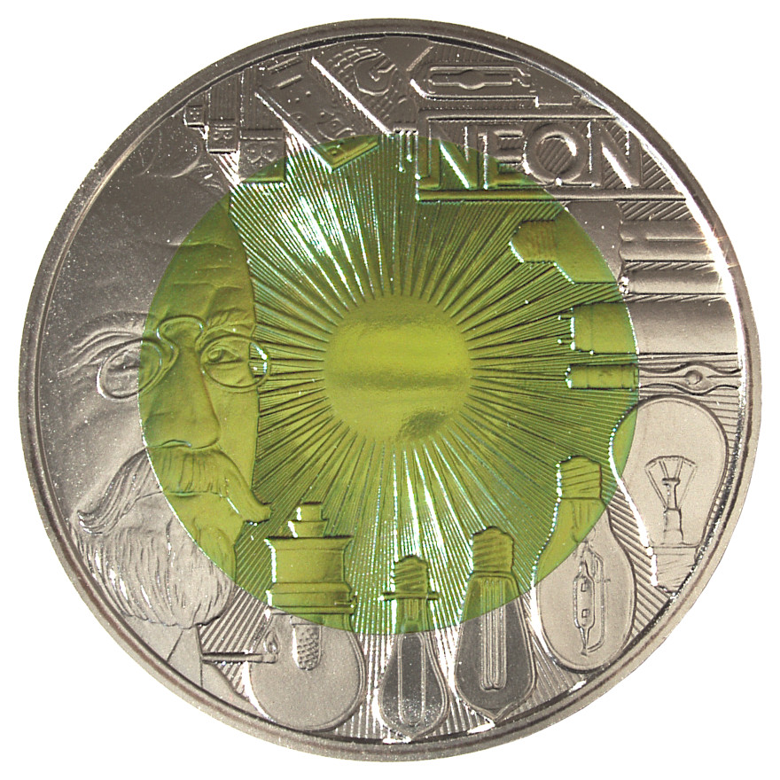 fascination of light